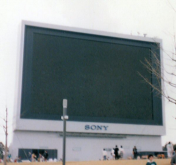 Sony JumboTron television at Expo '85 (The International Exposition, Tsukuba, Japan, 1985 The world's first JumboTron. Model: JTS-1)